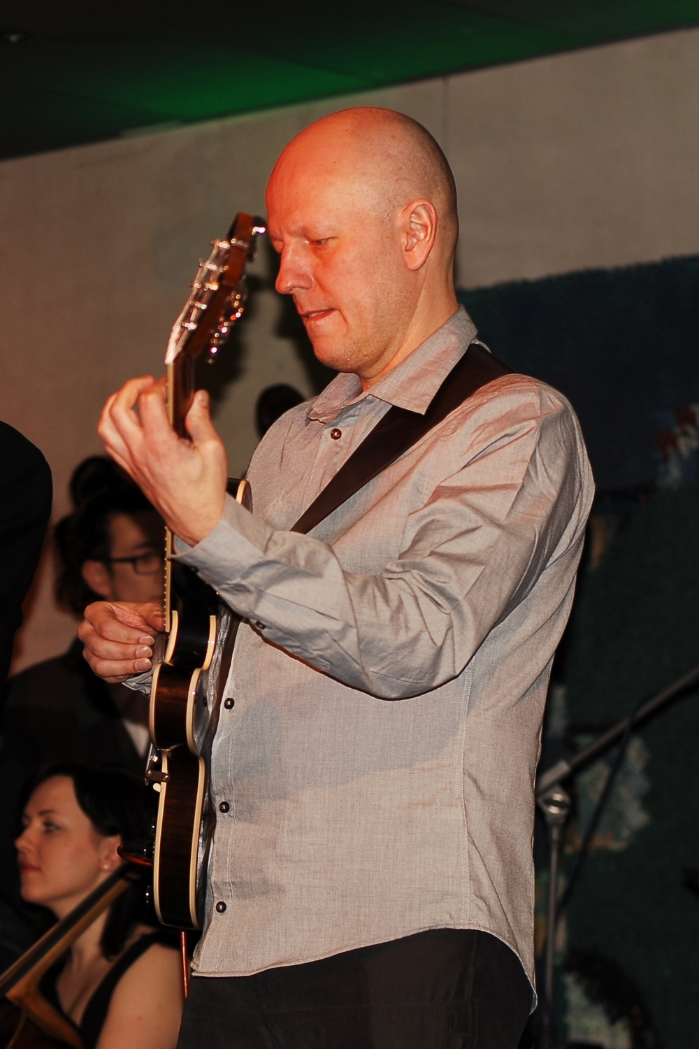 Maciej Grzywacz in concert with Julia Sawicka, "Fields of Soul - Live Experience", Warsaw 2013.